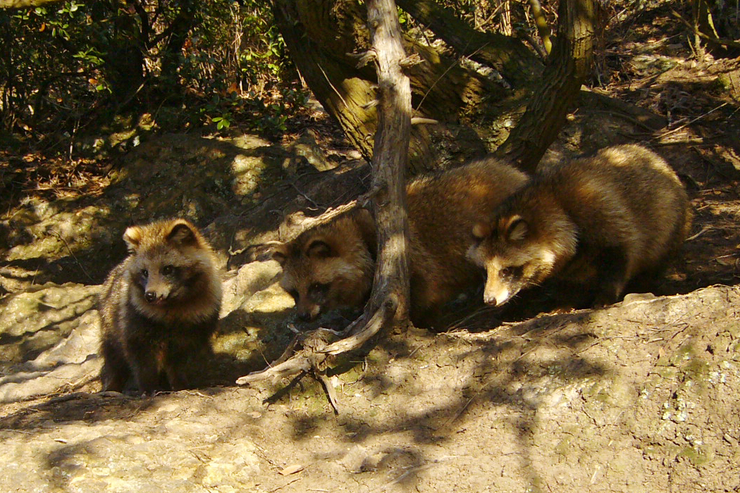 Raccoon Dog at Fukuyama, Hiroshima prefecture, Japan